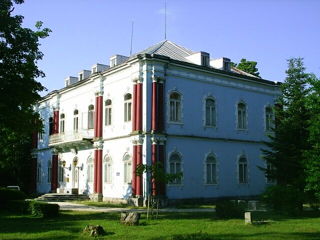 Nikola's palace in Cetinje, Monenegro. It was completed in 1889